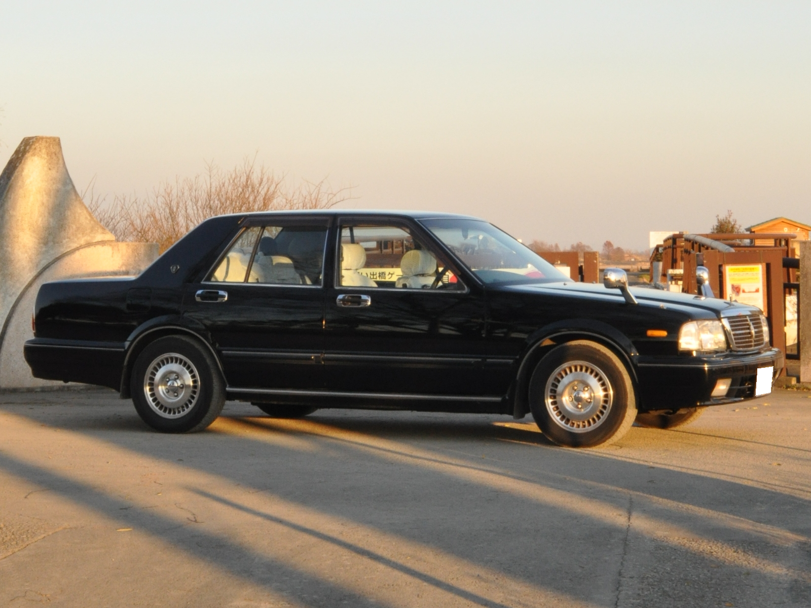 Y31 Nissan Cedric Sedan Brougham VG30E (#3 sized car) in black (paint code #KH3) with extra equipment such as sunvisors and carpeting.